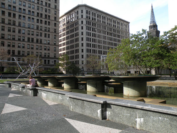 Picture of the Mellon Square fountain in Downtown Pittsburgh, Pennsylvania, on September 18, 2010. This area became known as Mellon Square in 1953, and it is on the List of Pittsburgh History and Landmarks Foundation Historic Landmarks. James A. Mitchell for Mitchell & Ritchey, architects; Simonds & Simonds, landscape architects.